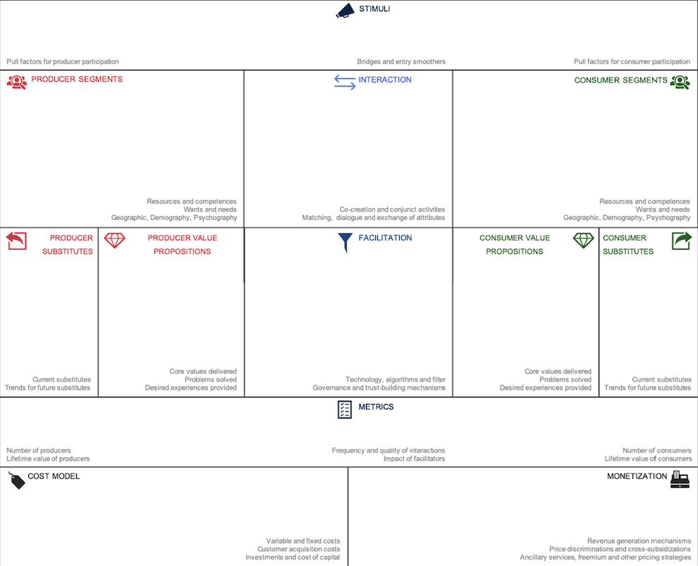 The ready-to-work-with framework to create and manage the mechanics of a platform system